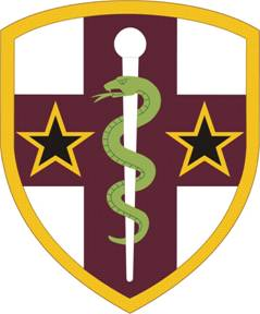 Army Reserve Medical Command SSI, Shoulder Sleeve Insignia, Shoulder Patch